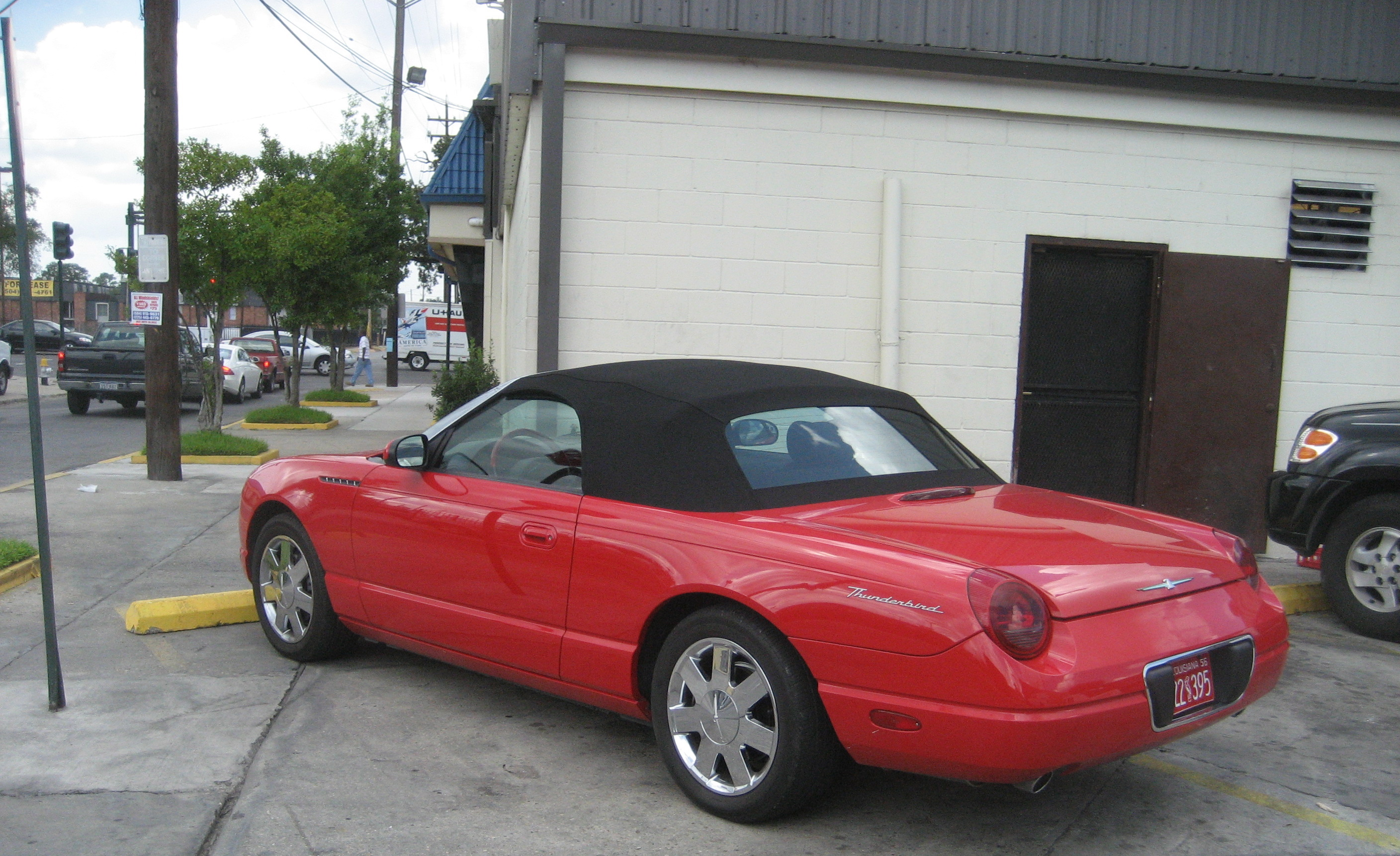 Retro red 2000s Ford Thunderbird. Seen in parking lot off Carrollton Avenue, New Orleans.